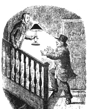 Great Expectations, Magwitch makes himself known to Pip, c. 1890.